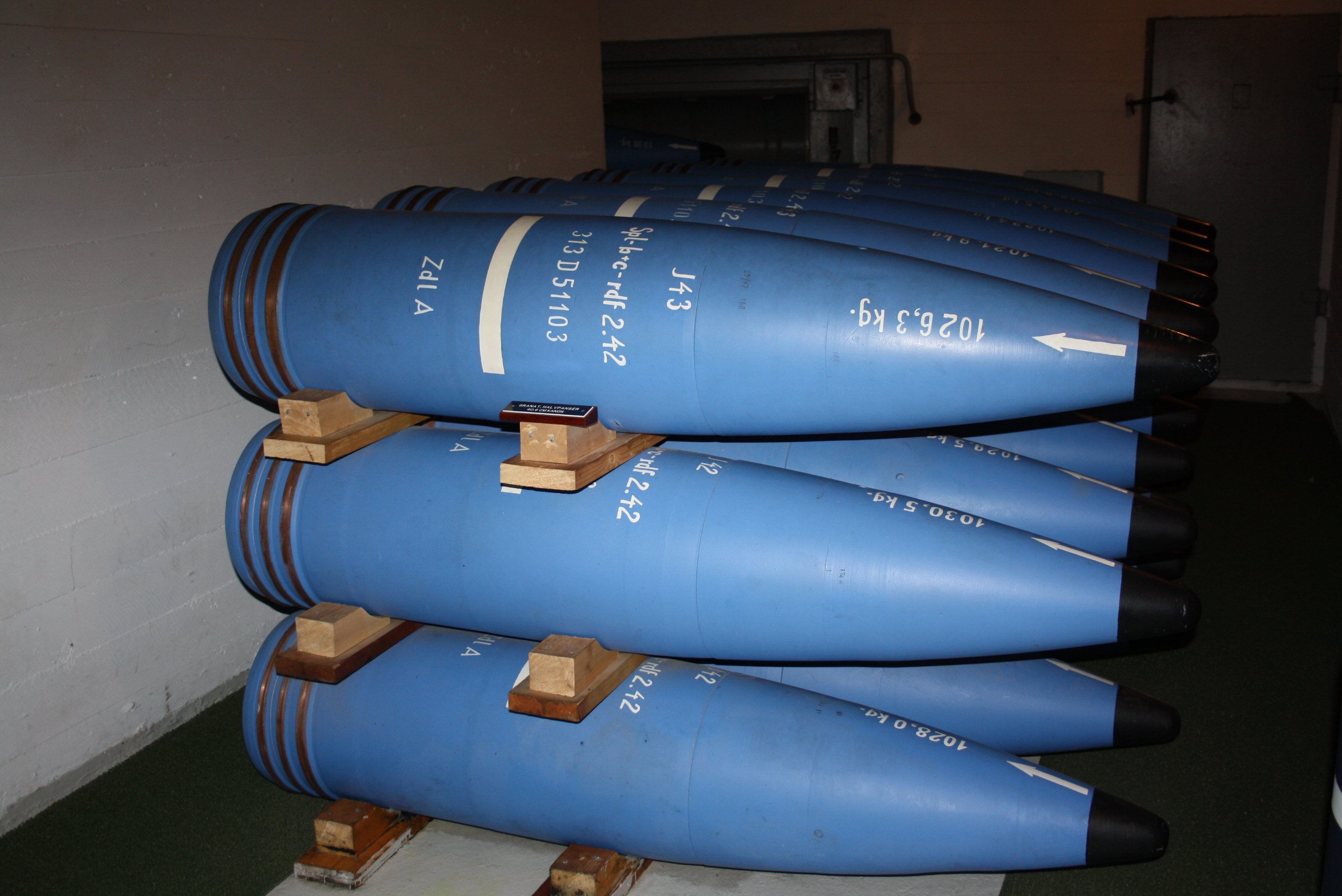 Armour piercing shells for the 40.6 cm gun in Trondens, Norway.